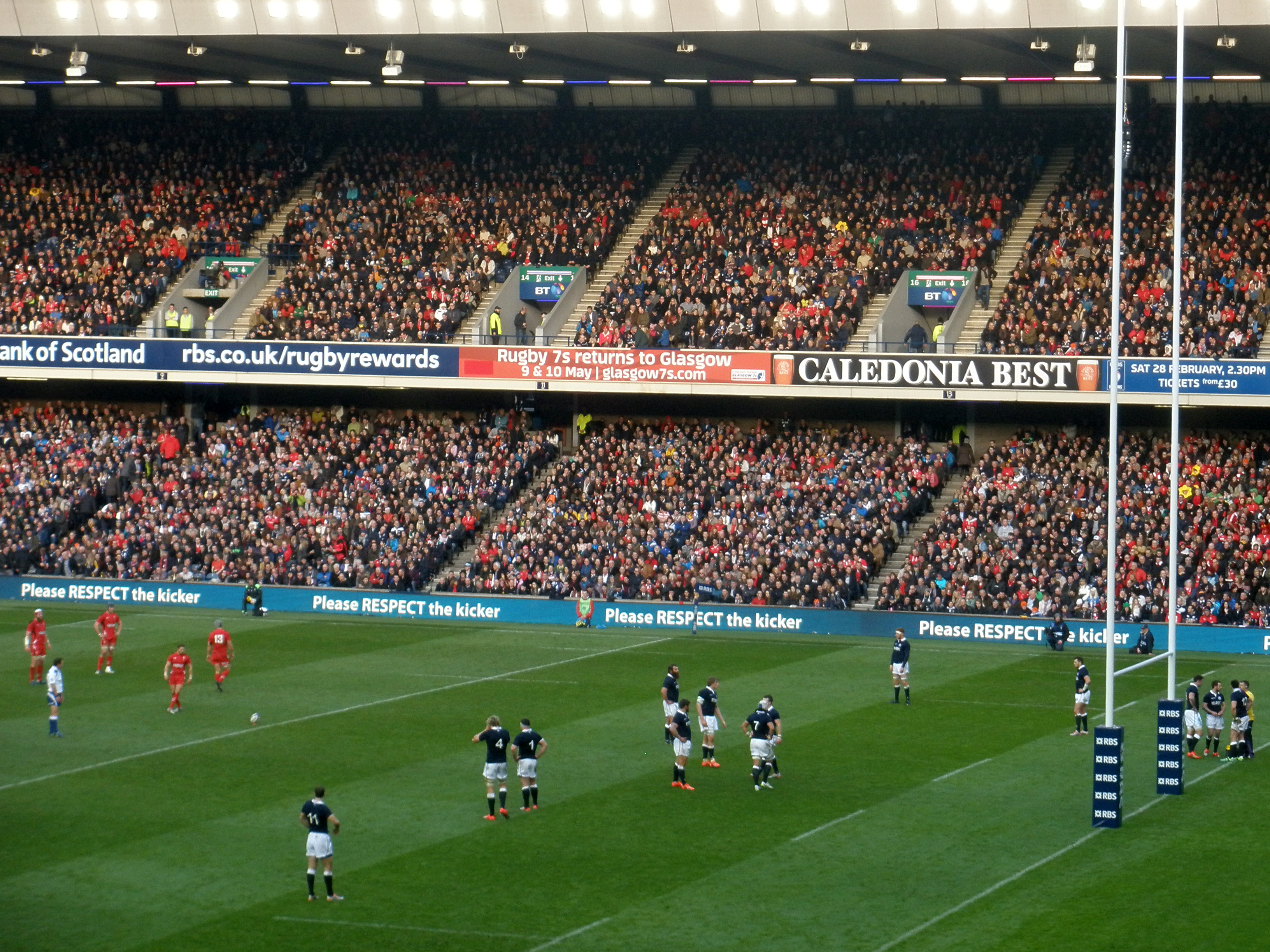 Scotland 23 Wales 26. 2015-02-15 at Murrayfield